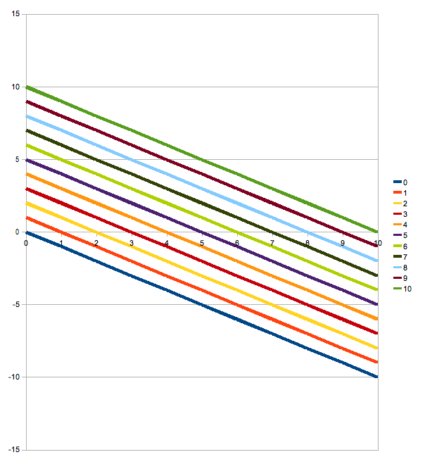 Subtraction of numbers 0-10. Line labels = first number. X axis = second number. Y axis = difference.